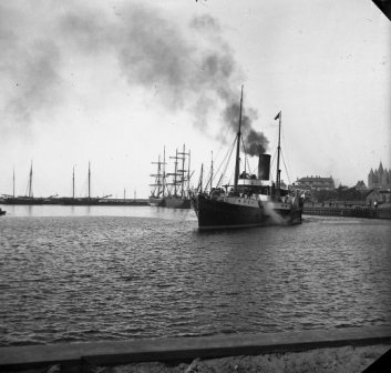 PSS Dronningen (from 1916: MV Samsø), paddle steamer built 1876 by Sir Raylton Dixon & Co. Ltd., Middlesbrough. In use by Hans Kirsebom, Kristiansund. Bought by DFDS in 1888 and in use on the Kalundborg-Aarhus route, sold 1916 to Dansk Kartoffel-Gemyse Eksport A/S, Kalundborg, and wrecked 1918 by a mine. Kalundborg Lokalarkiv.